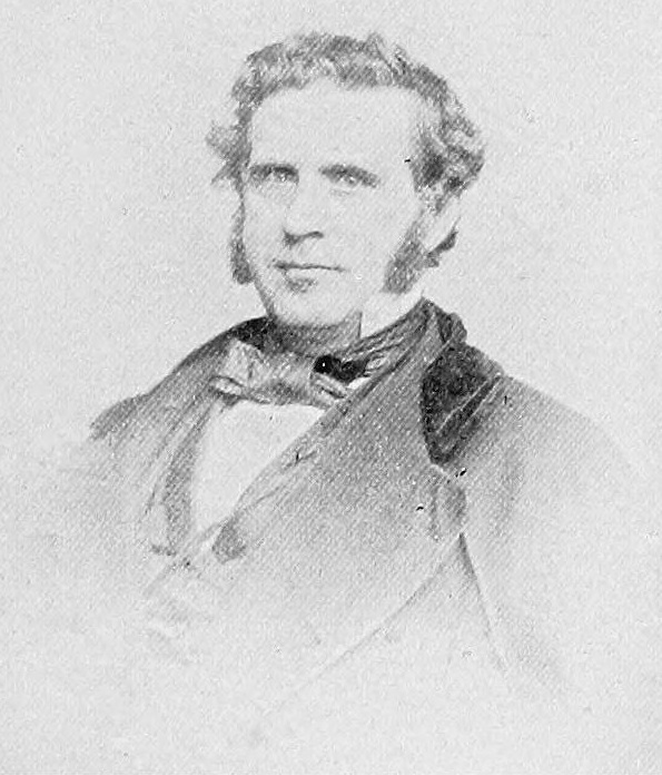 Samuel G. Daily (Nebraska Congressman)